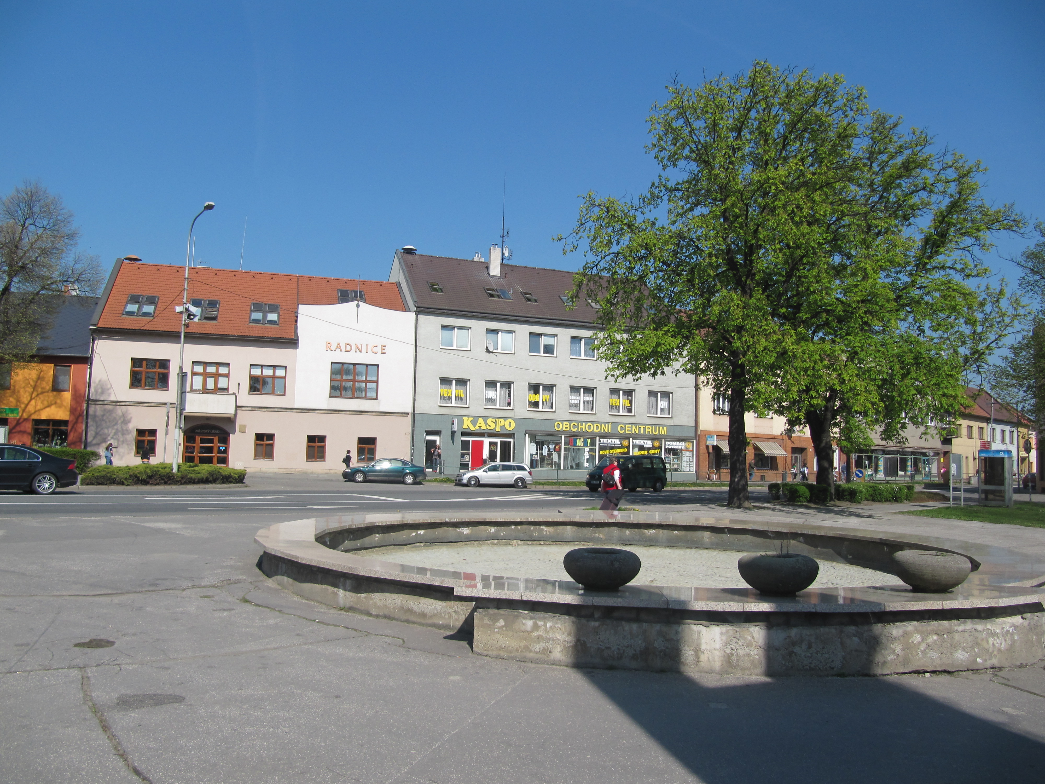 Hulín in Kroměříž District, Czech Republic. Square Náměstí Míru, town hall.